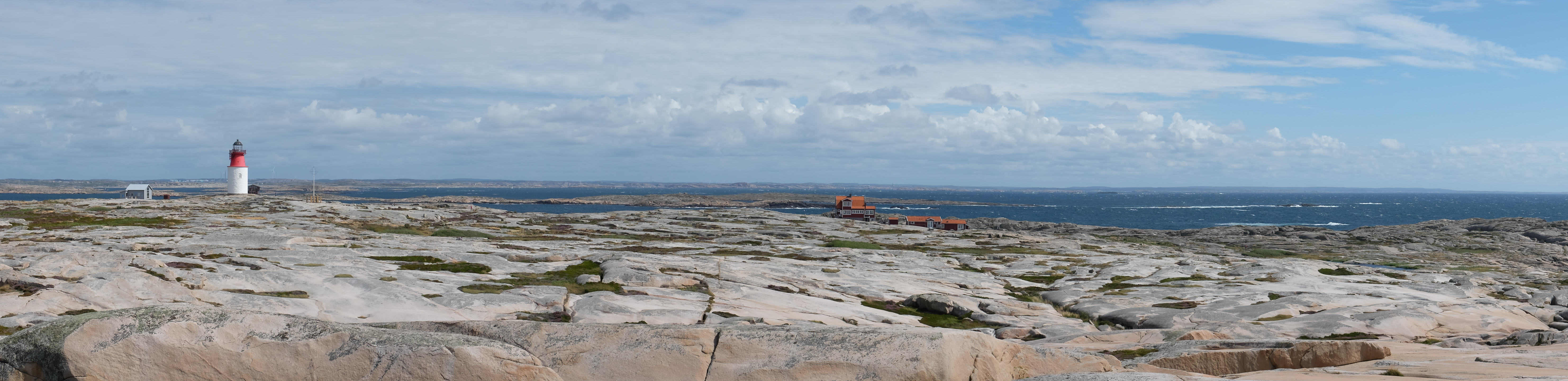 Hållö lighthouse panorama outside Kungshamn, Sweden.